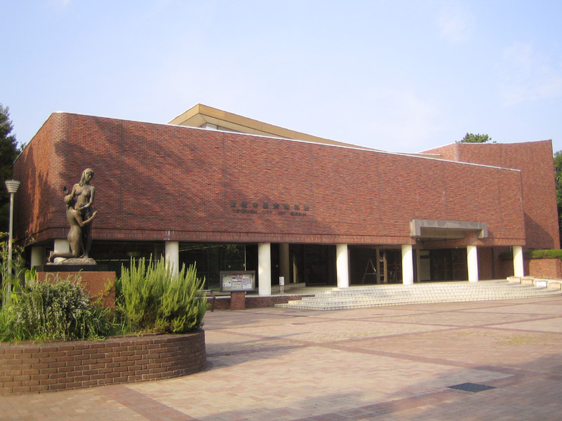 Toyohashi City Art Museum (豊橋市美術博物館), located at Imahashicho, Toyohashi, Aichi, Japan